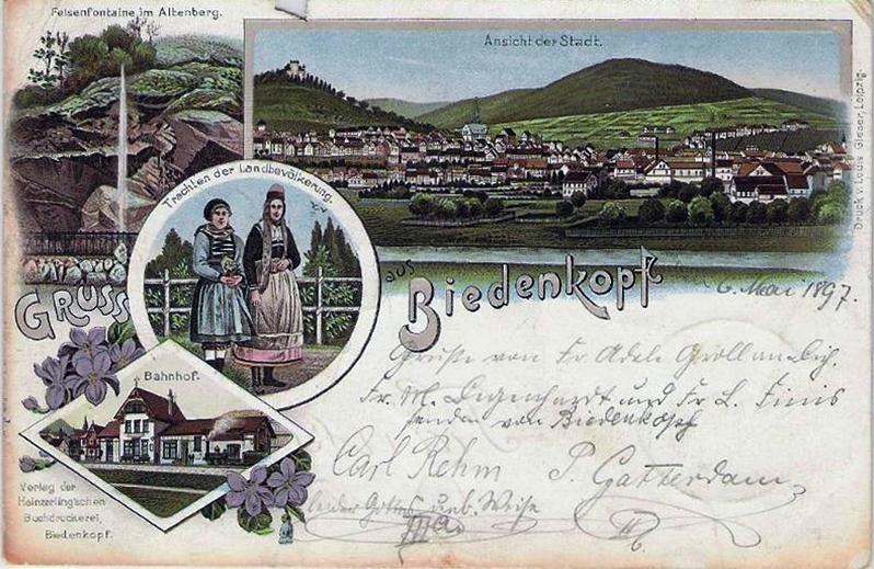 Germany, Biedenkopf: Postcard with motives of Biedenkopf, Hessia; written in 1897-05-06.